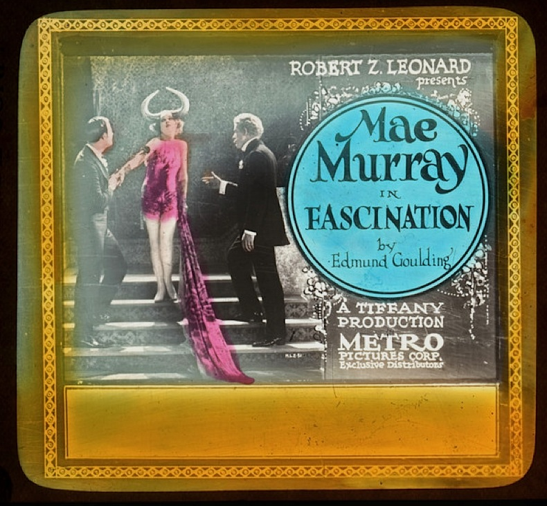 Fascination is a 1922 American silent drama film directed by Robert Z. Leonard and starring his then wife Mae Murray. This is a lantern slide for the film.